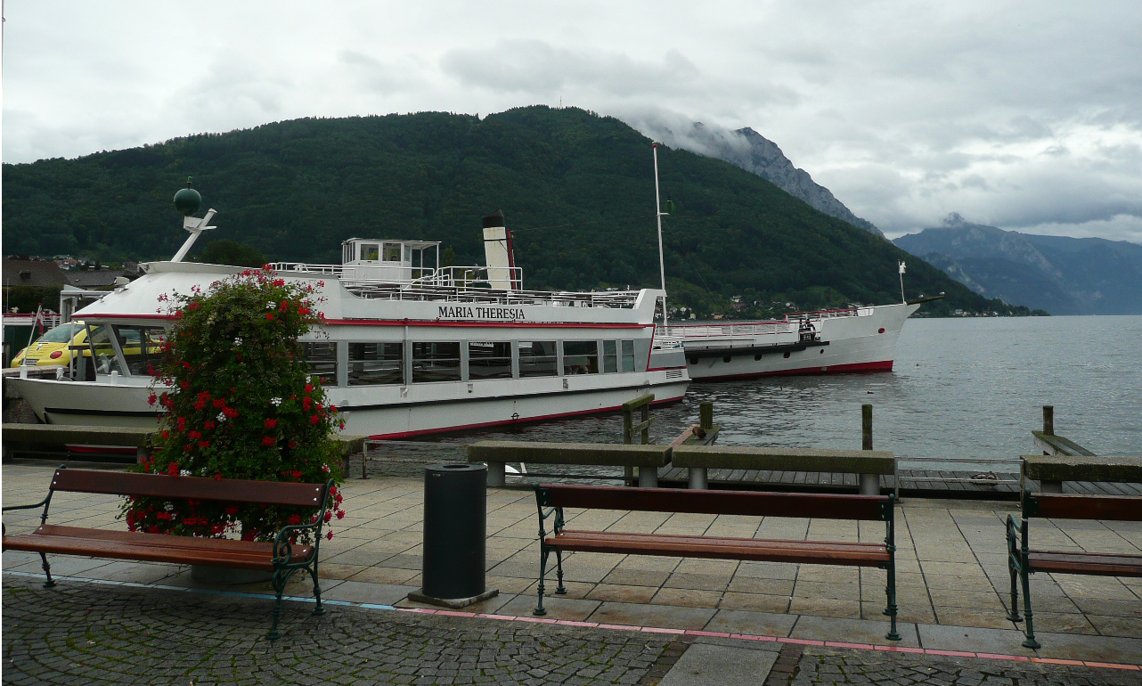 The lake Traunsee harbour in Gmunden (Upper Austria) - One of the touristic boats